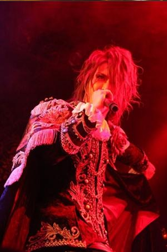 Kamijo, Versailles ~Philharmonic Quintet~ in Santiago, Chile, Teatro Teletón. METHOD OF INHERITANCE TOUR (June 6, 2010)